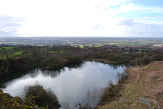 Flooded part of Hunters Hill Quarry View across Hunter's Hill Quarry and the West Lancashire Plain. This quarry was worked for its sandstone for 200 years up to the 1980's but is now a nature reserve with managed walkways and parking overlooking the Lancashire Plain.